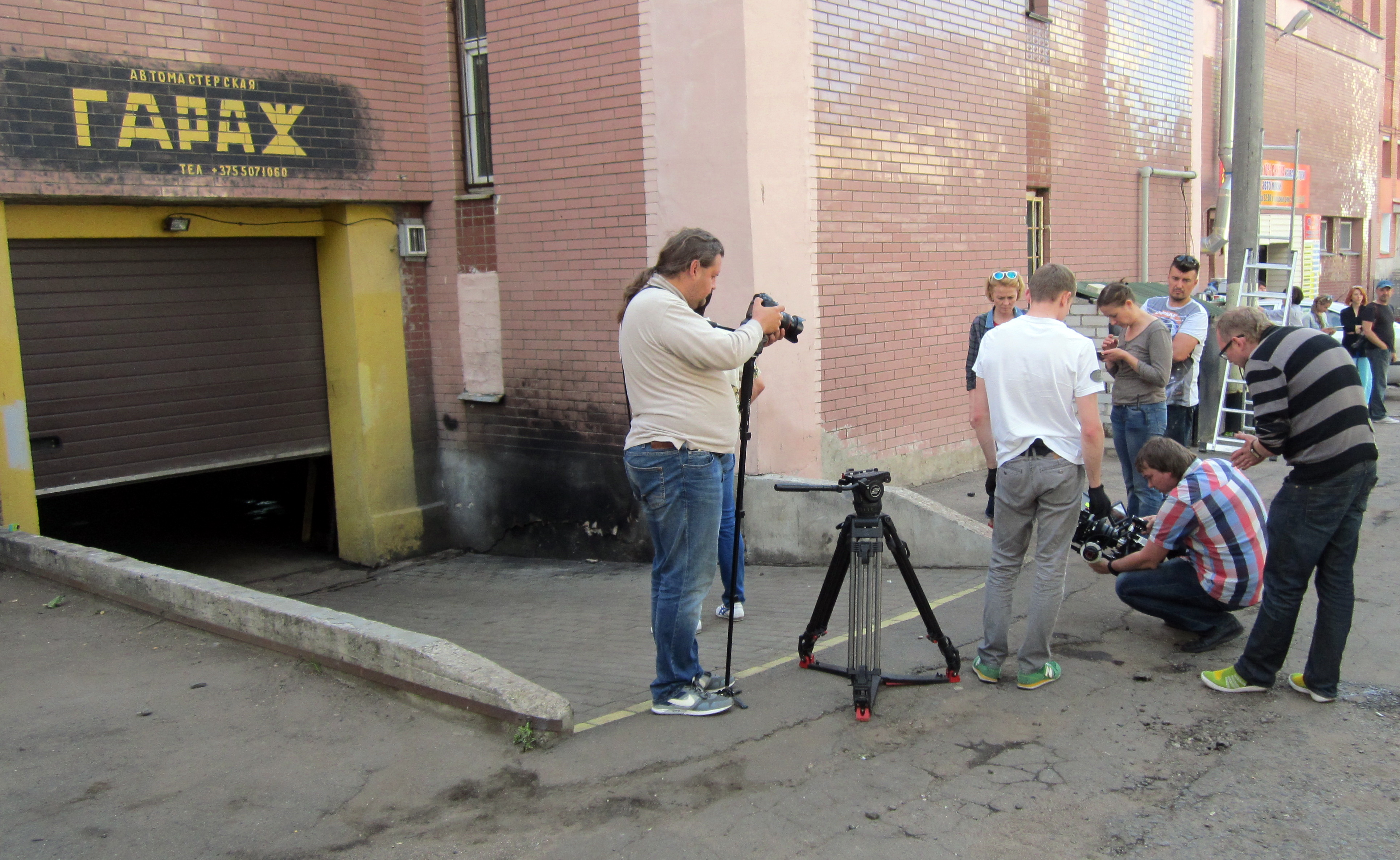 Andrej Kureichik during filming of "GaraSh" movie in Minsk, Belarus